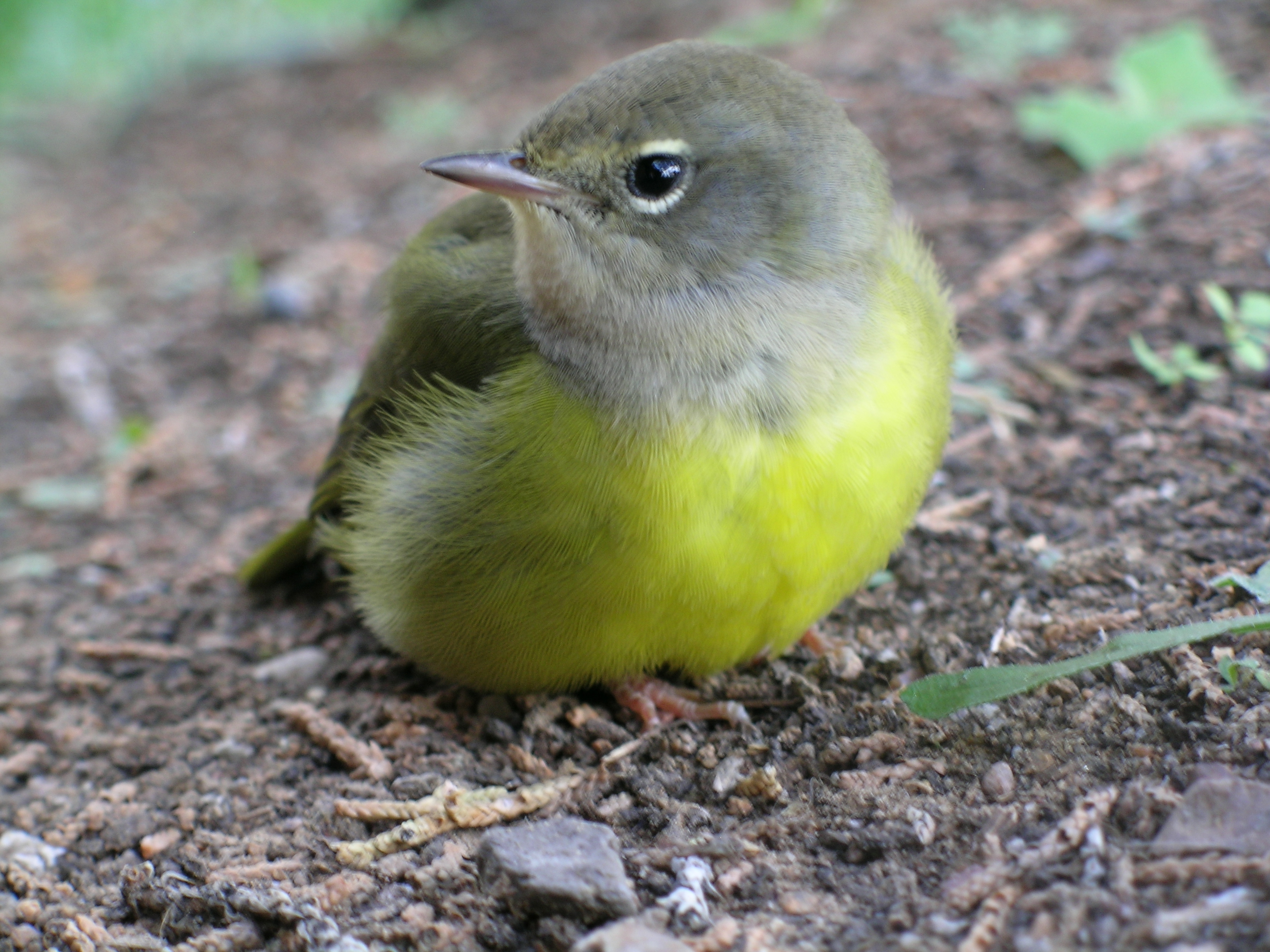 MacGillivray's Warbler (Oporornis tolmiei), at El Morro National Monument, New Mexico, USA